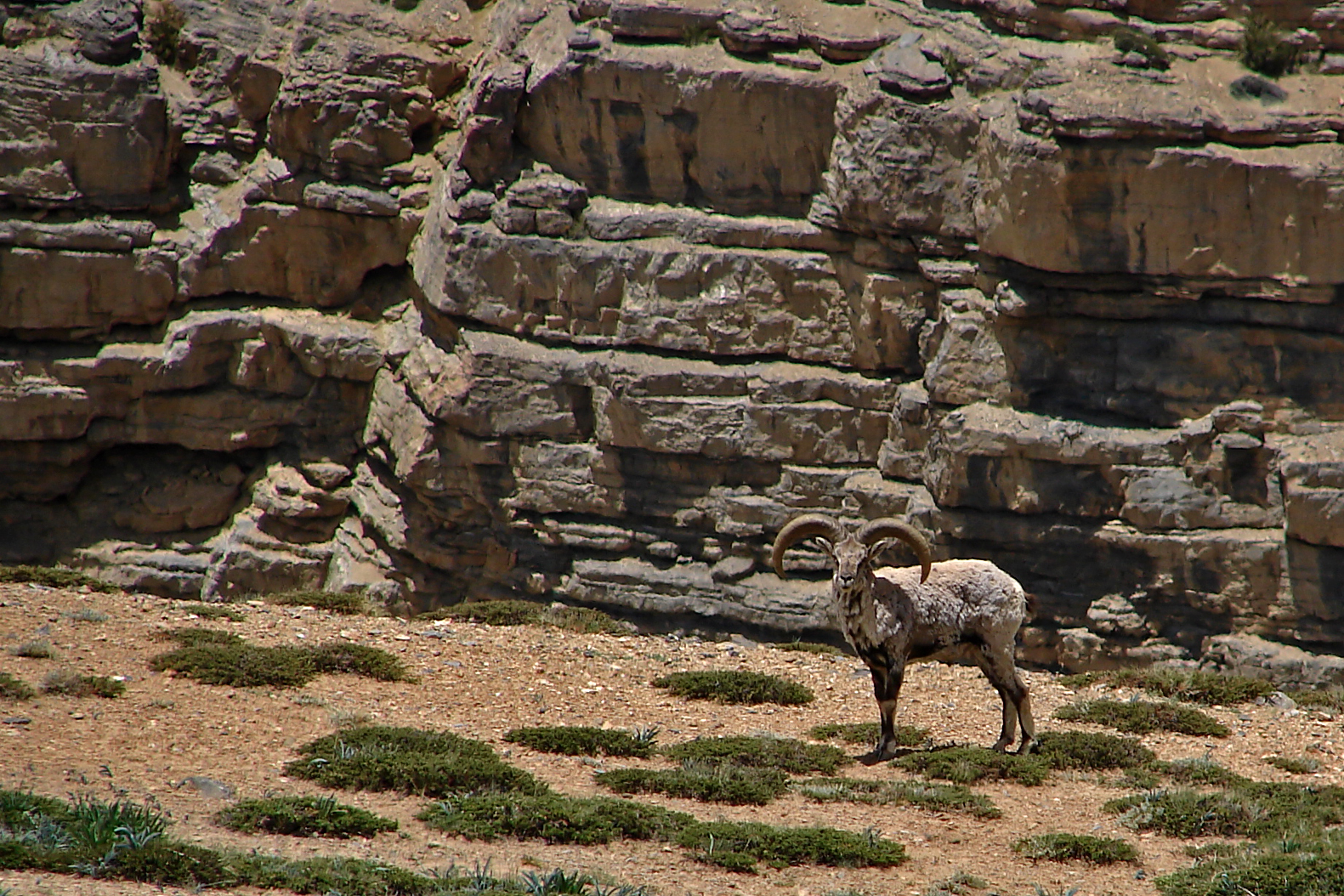 An adult male blue sheep in Spiti Valley, Himachal pradesh India